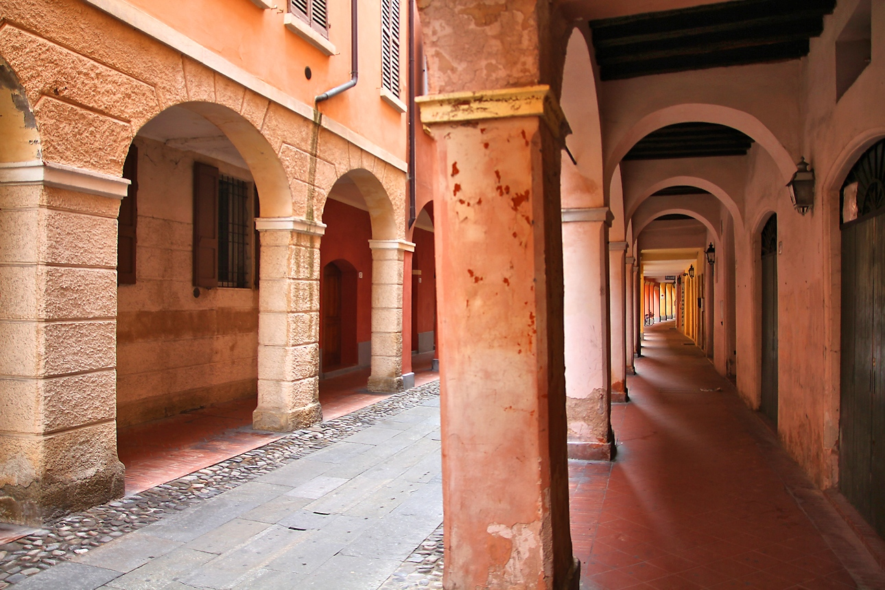 Street view in Modena, Italy.